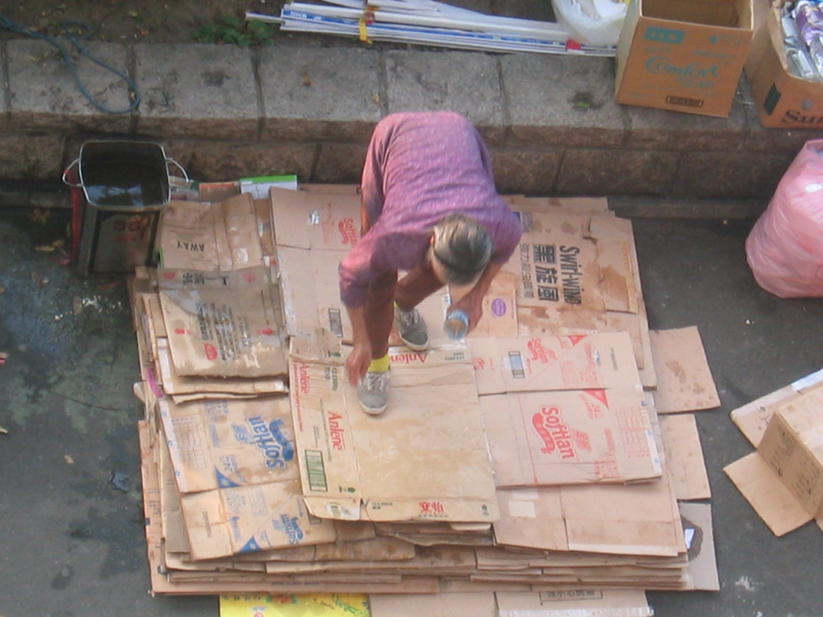 A waste picker pouring water onto the paper she has collected, in order to increase the weight of her collection, at Sheung Shui, Hong Kong